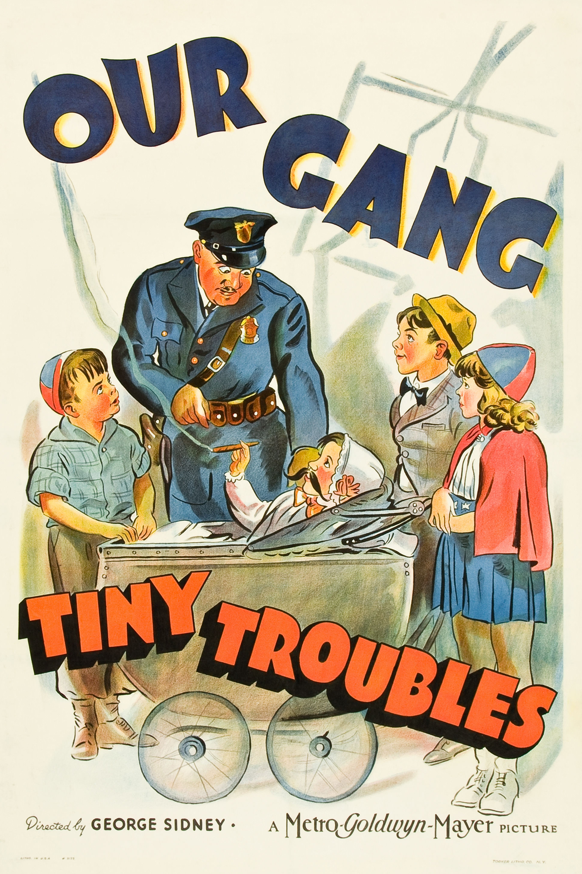 American film poster for the 1939 Our Gang short Tiny Troubles